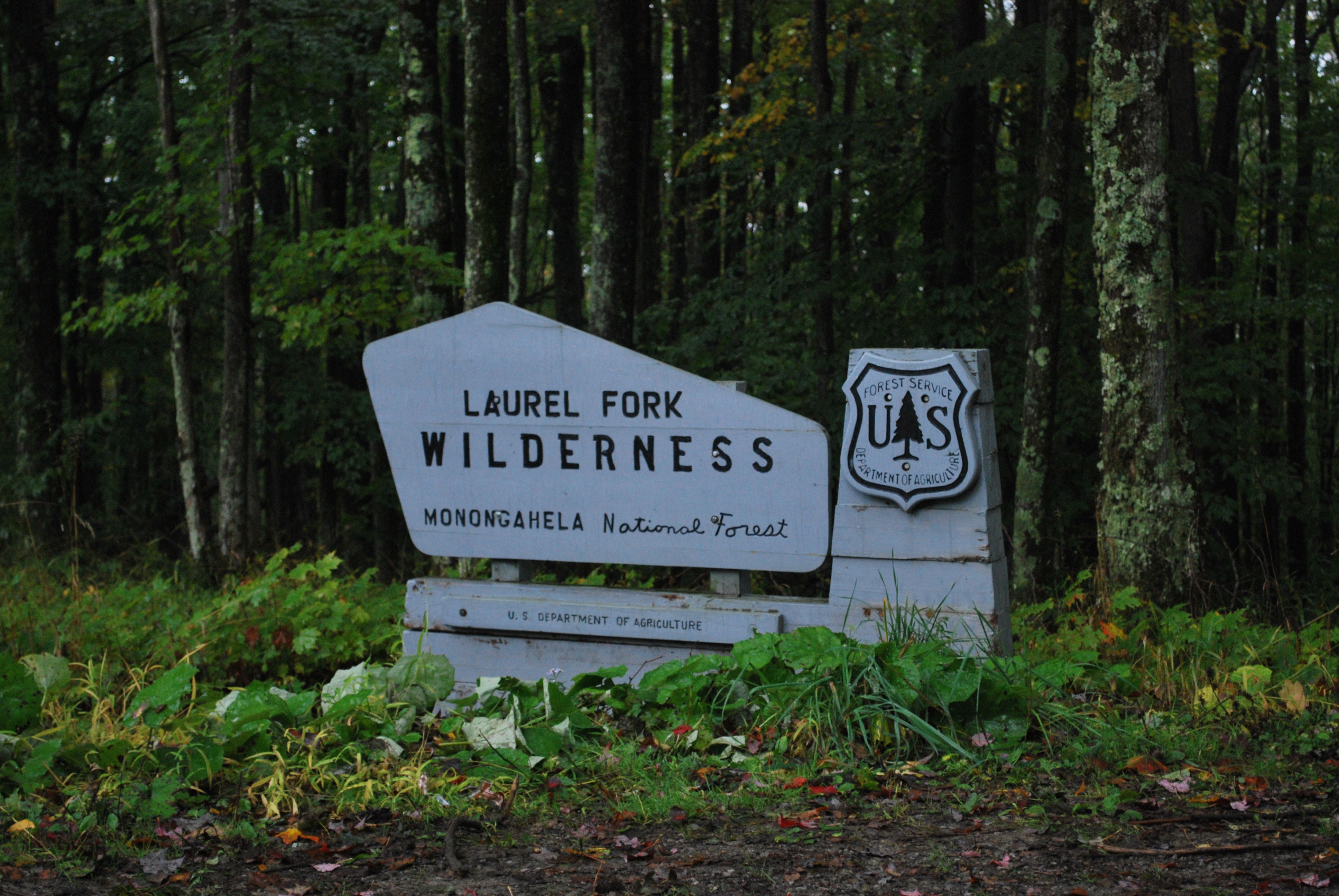 Marker for Laurel Fork Wilderness (North) on Middle Mountain Road.